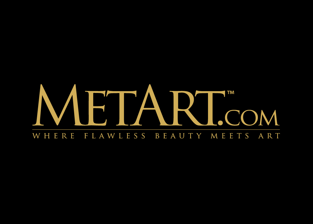 The updated (2019) logo with its slogan "Where Flawless Beauty Meets Art" (trademark)